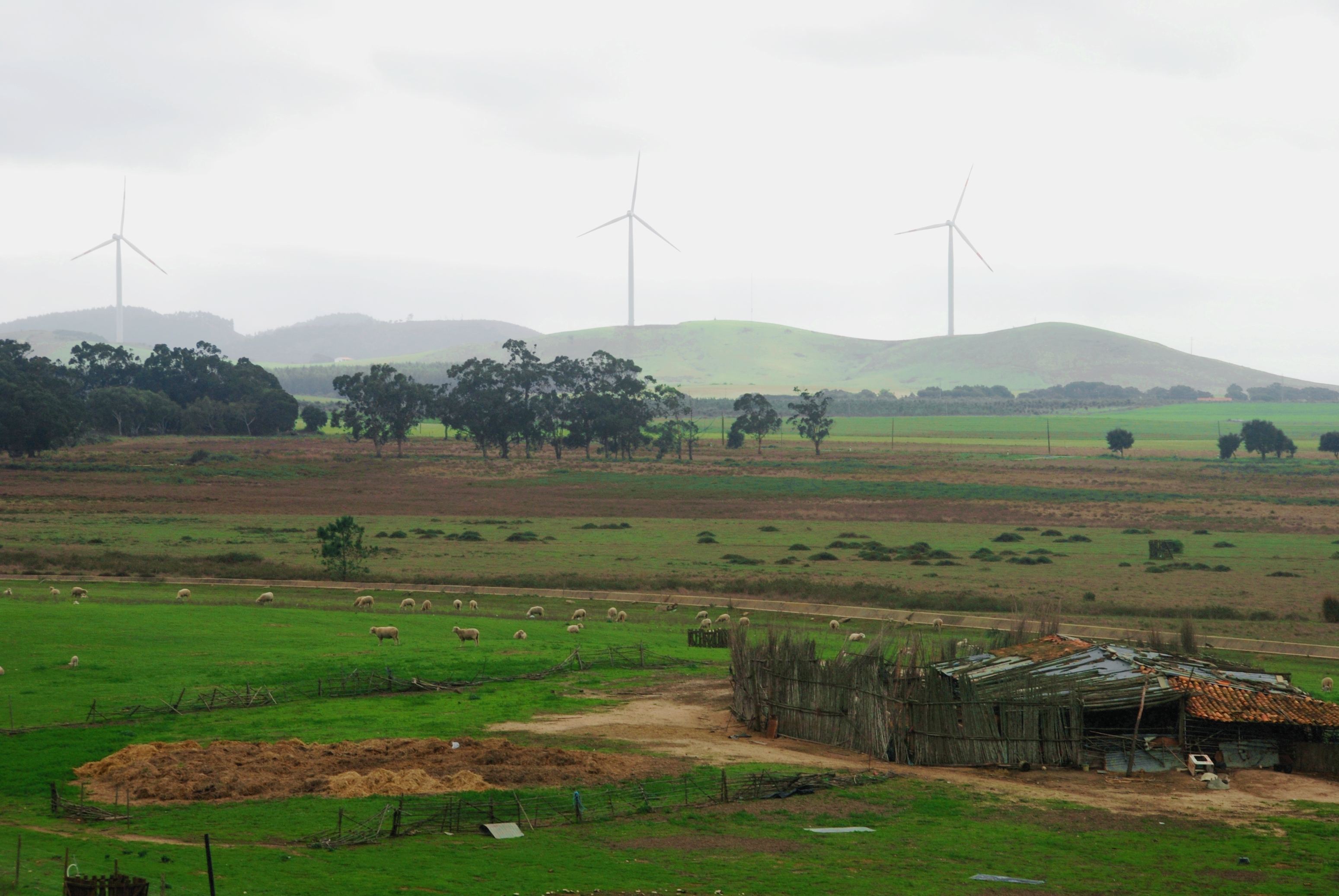 A country view with lambs. Porto Covo, Portugal